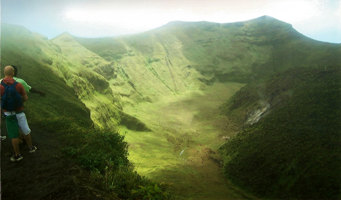 La Soufriere Volcano Summit. La soufriere Volcano Summit, Saint Vincent and the Grenadines.